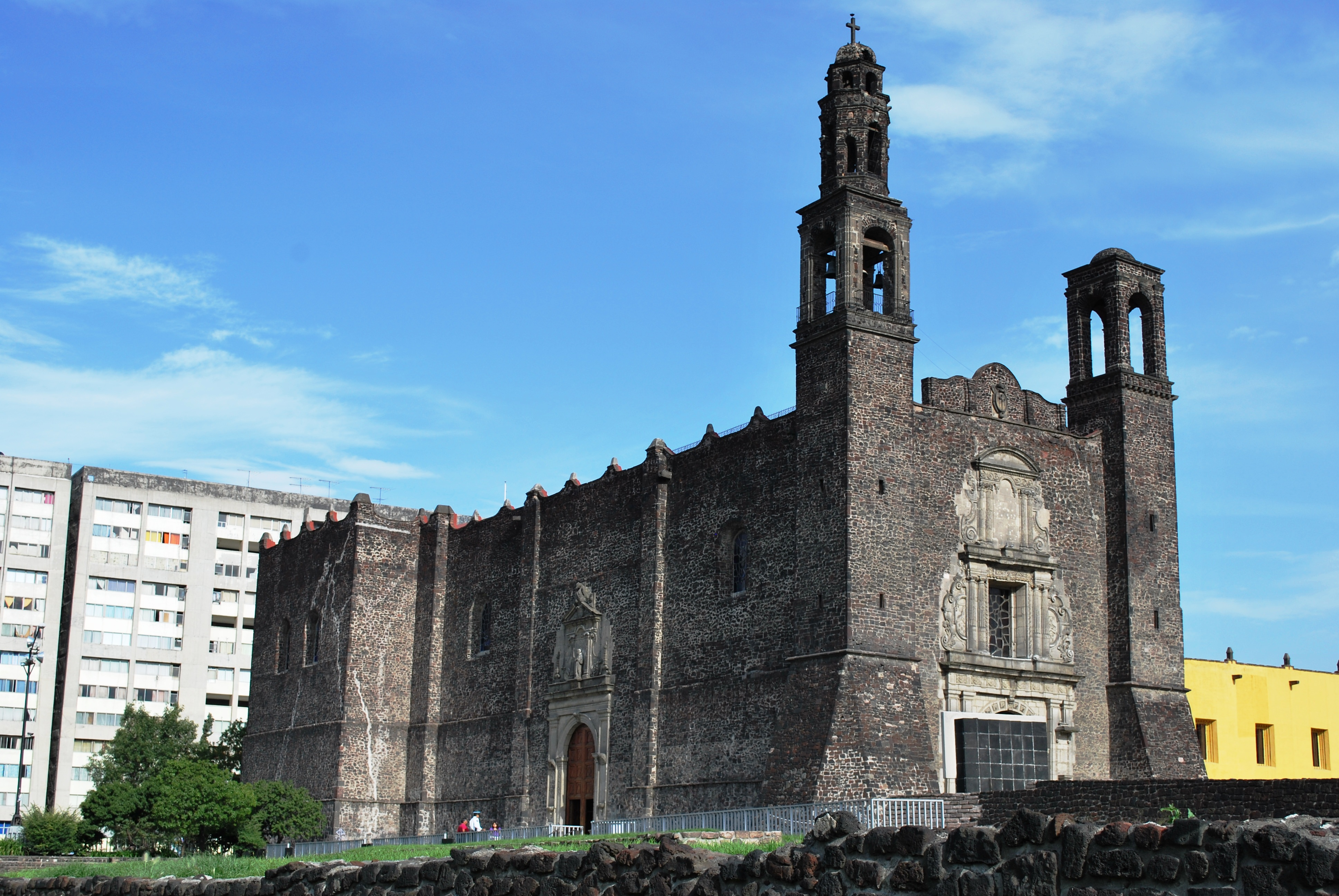 View of the Church of Santiago at the Plaza de las Tres Culturas in Tlatelolco, Mexico City